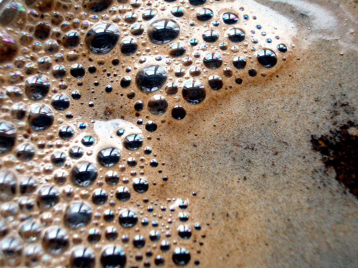 Bubbles atop freshly brewed coffee in a french press.